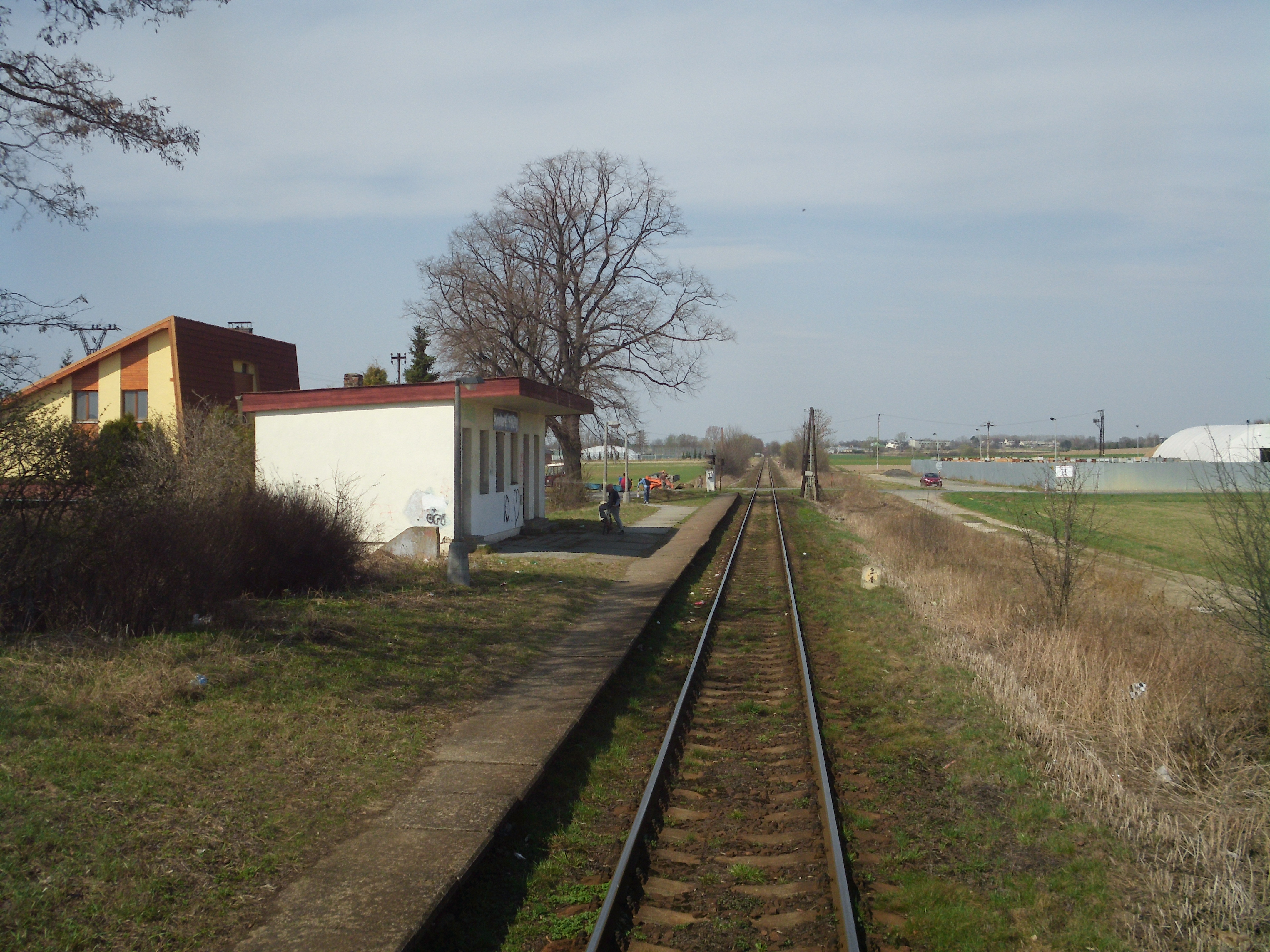 Train stop in Kravaře-Kouty, Czech Republic, as seen from the back window of a passing train.